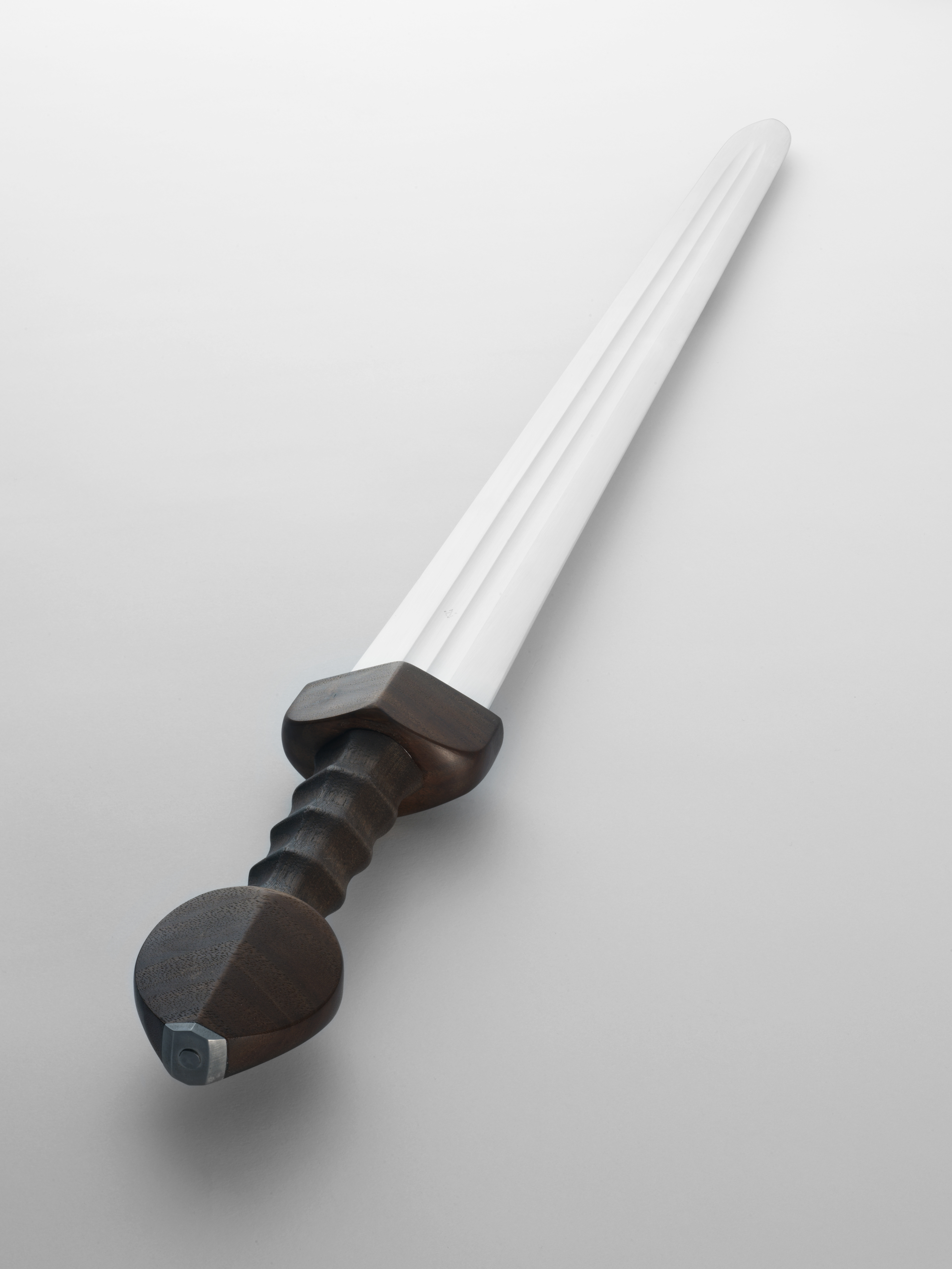 The Decurio The spatha, or long sword, was originally the weapon of the Roman cavalry units. Longer than the infantry gladius, it gave the reach and cutting power needed from horseback. In the 3rd and 4th centuries, the spatha gradually replaced the gladius as the infantry sword, probably due to the large numbers of Celtic/Germanic recruits that then populated the legions in the late Empire. The spatha is also credited with being the inspiration for the development of the Migration era sword styles - in fact, in many bog finds it is difficult to determine which swords are late Roman spathae and which are native Germanic swords. In our spatha offerings, we are attempting to present several different blade and hilt styles that will span the time from the earliest spathae into the early Migration era. The guard and pommel are hand-crafted of walnut, the grip turned from holly, and the inset guard plate and pommel nut are of bronze.